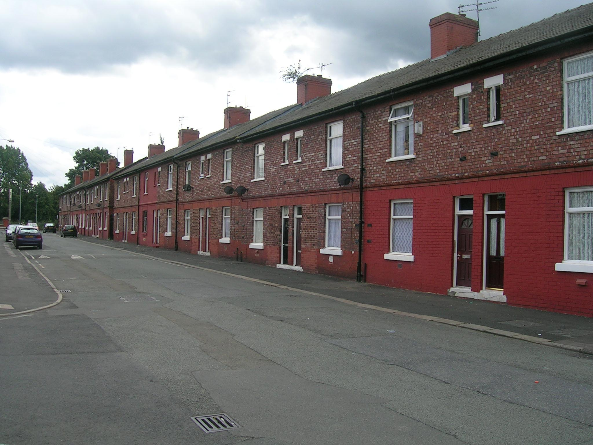 This is Barrack Street in beautiful Hulme :-D